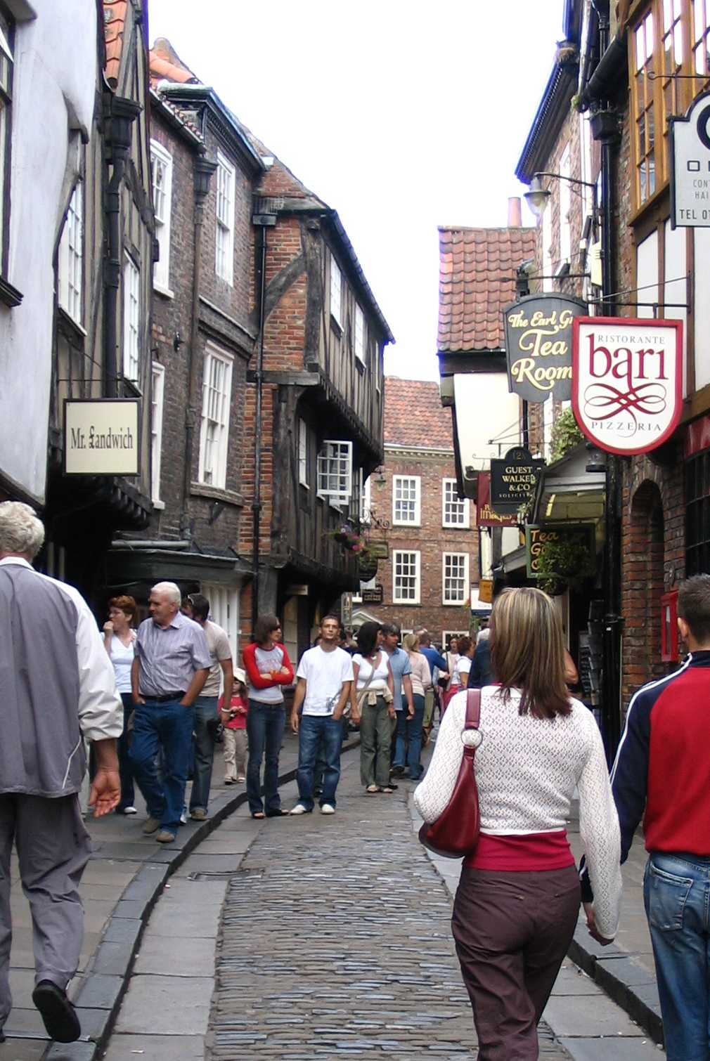 Street of The Shambles, York, United Kingdom.